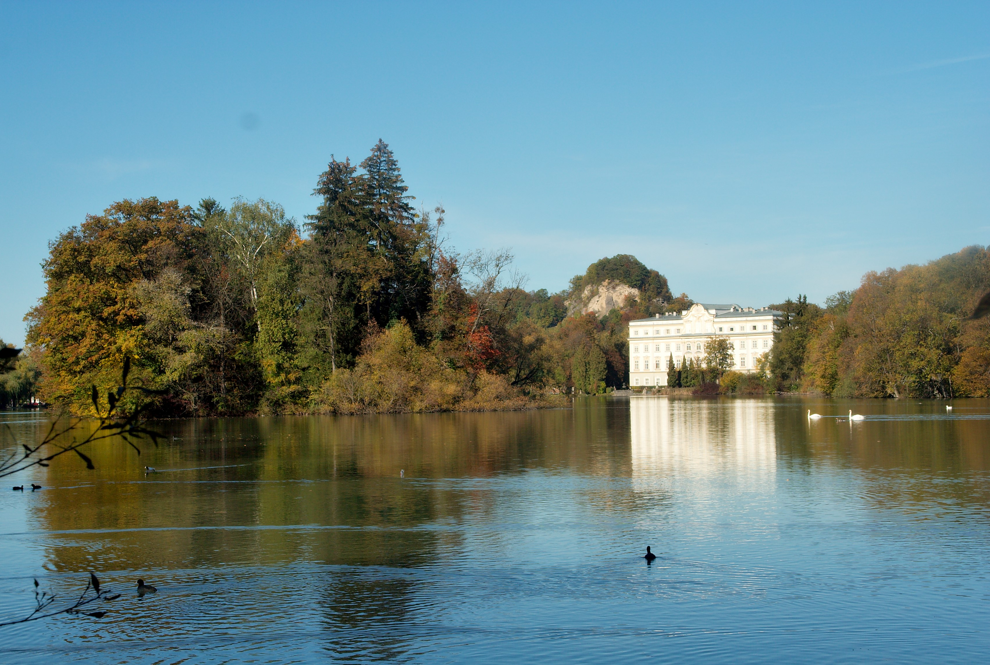 Castle Leopoldskron in Salzburg, Austria